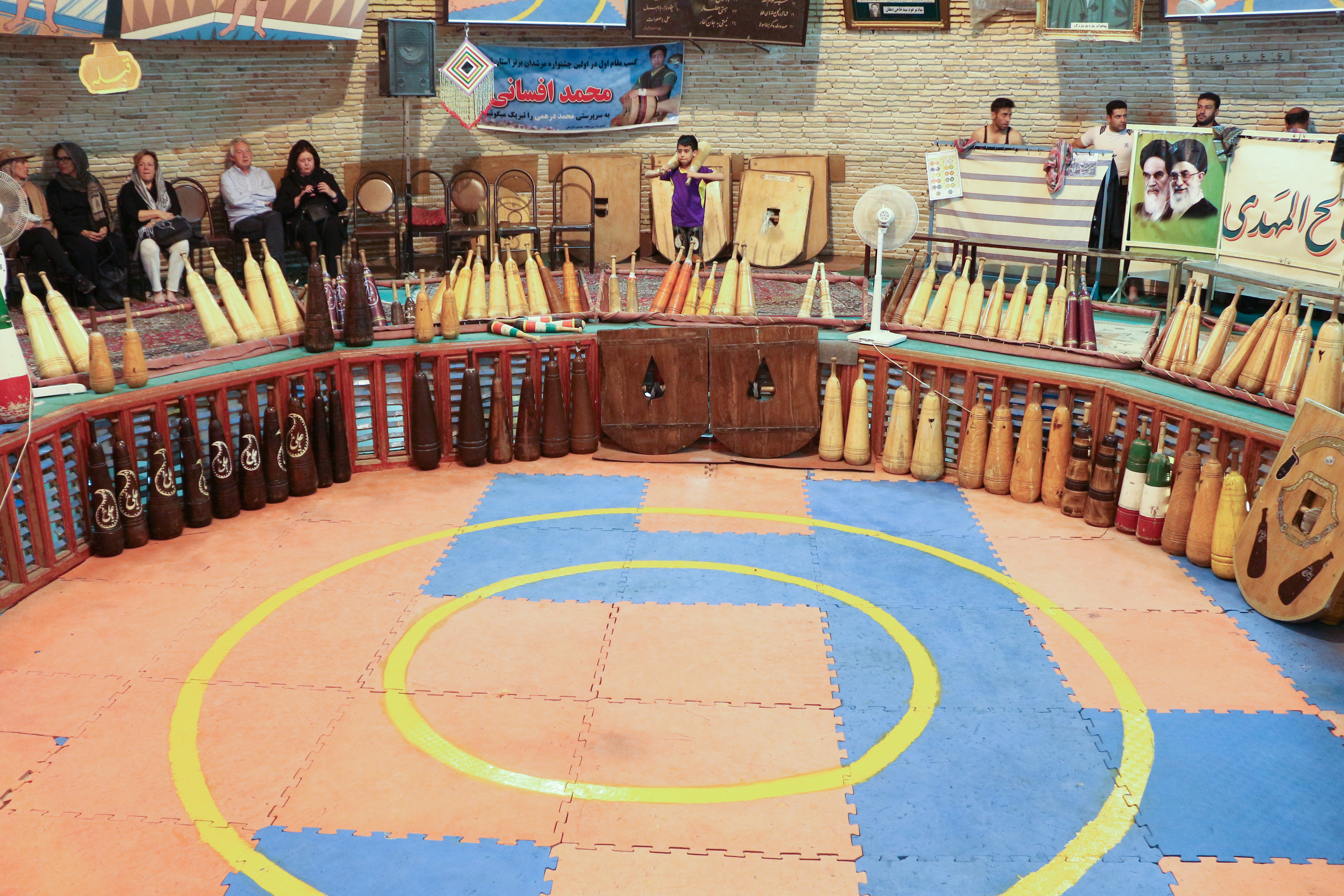 A zurkhāneh (house of strength), Yazd, Iran